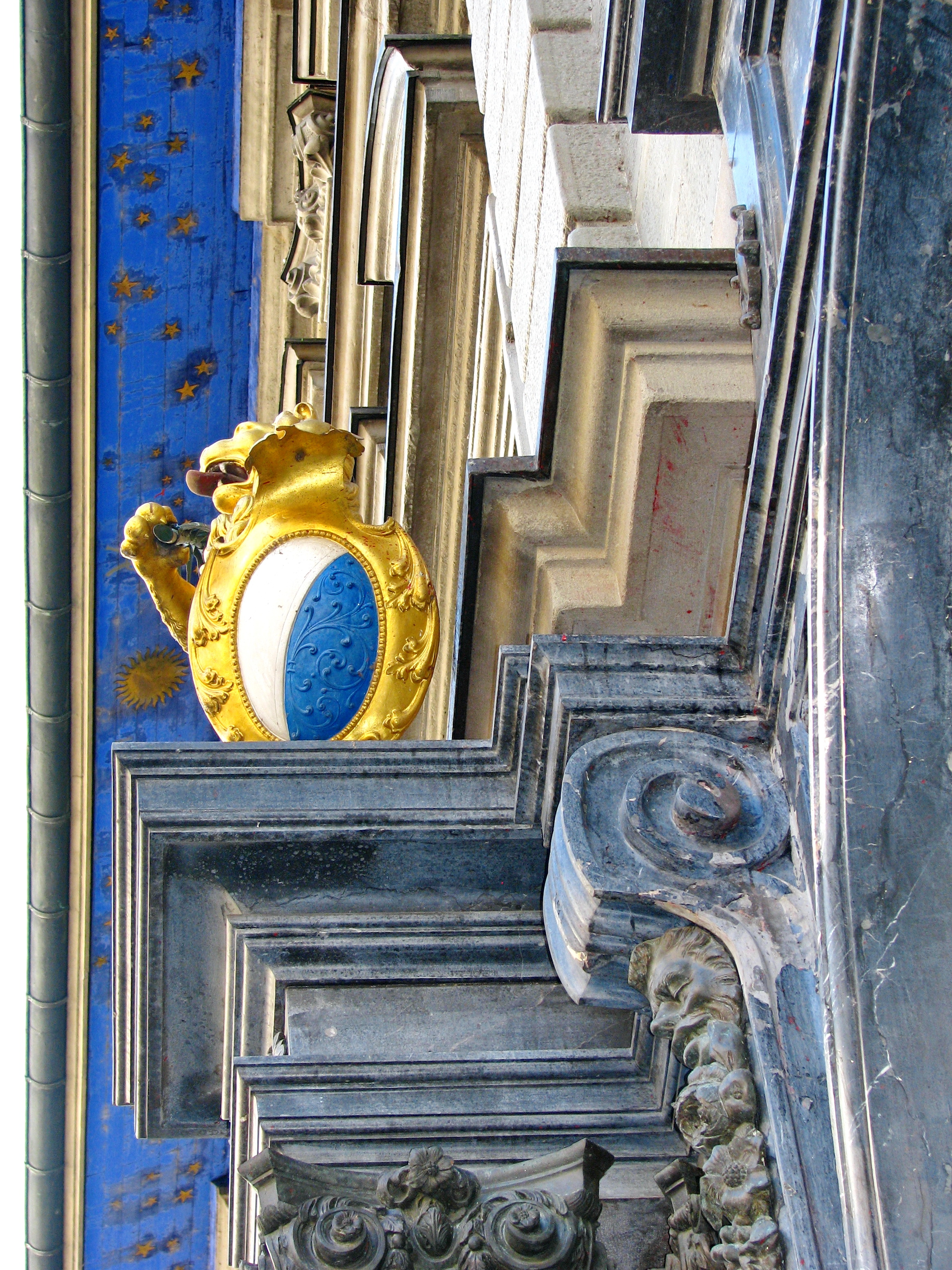 Zürich : Town hall, Portal and ceiling's painting with Details of stucco and lion sculpture.